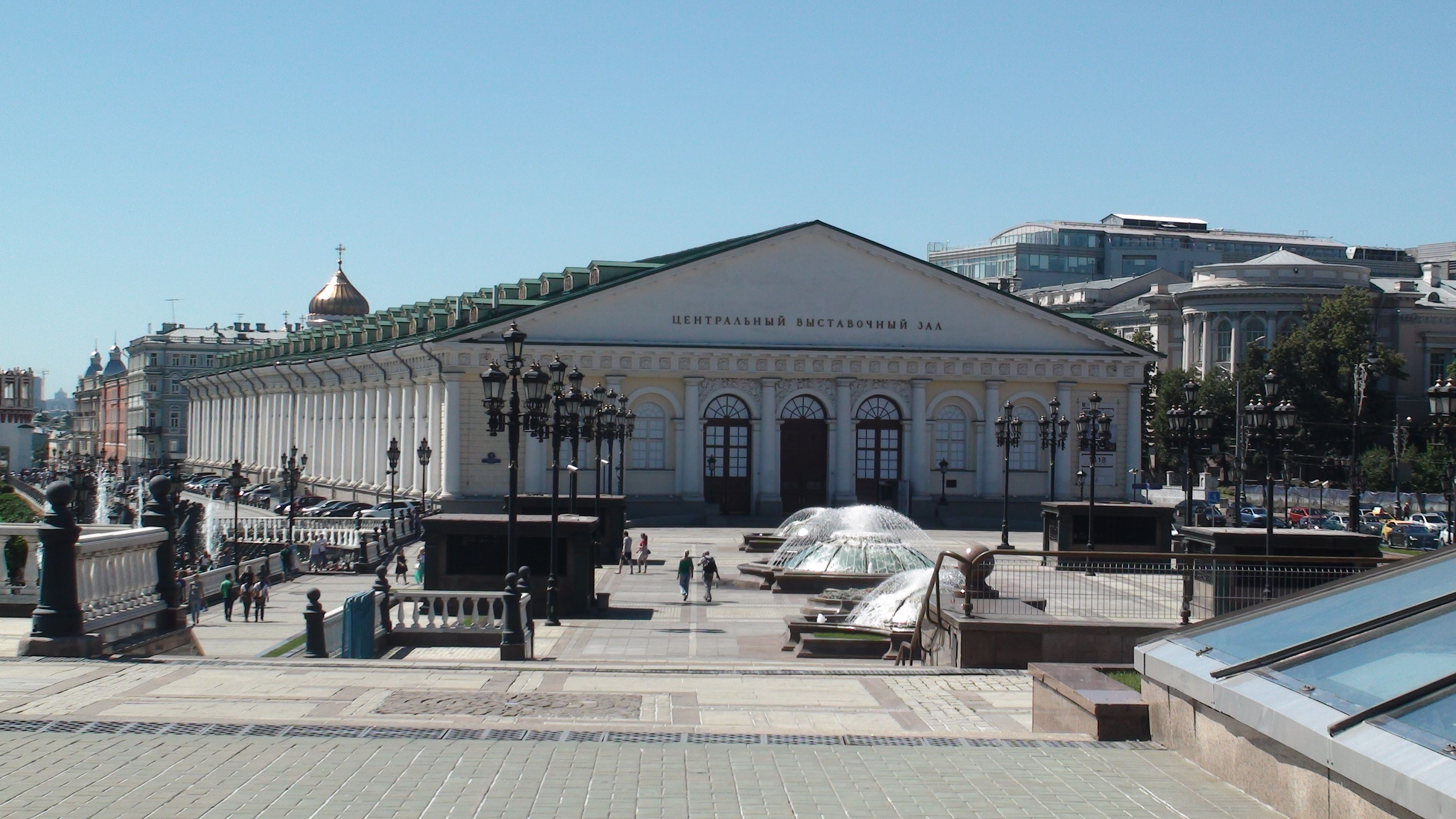 г. Москва Манежная площадь